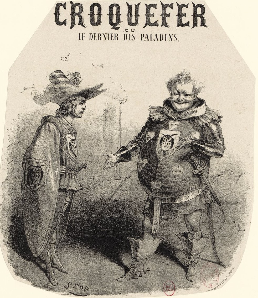 A scene from Croquefer, operetta by Jacques Offenbach, engraving by Stop; Léonce as Boutefeu and Étienne Pradeau as Croquefer